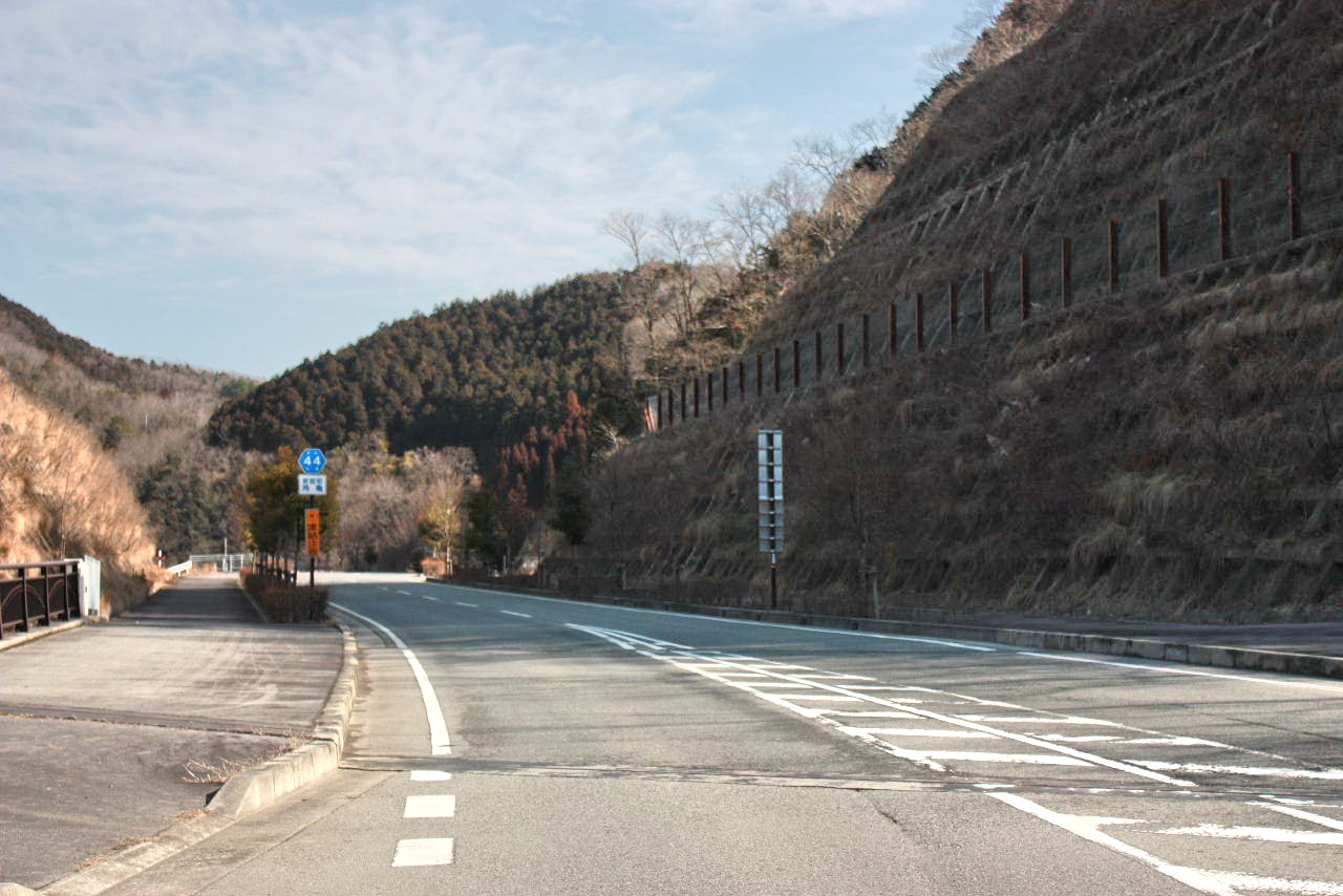 Hyogo prefectural road No.44